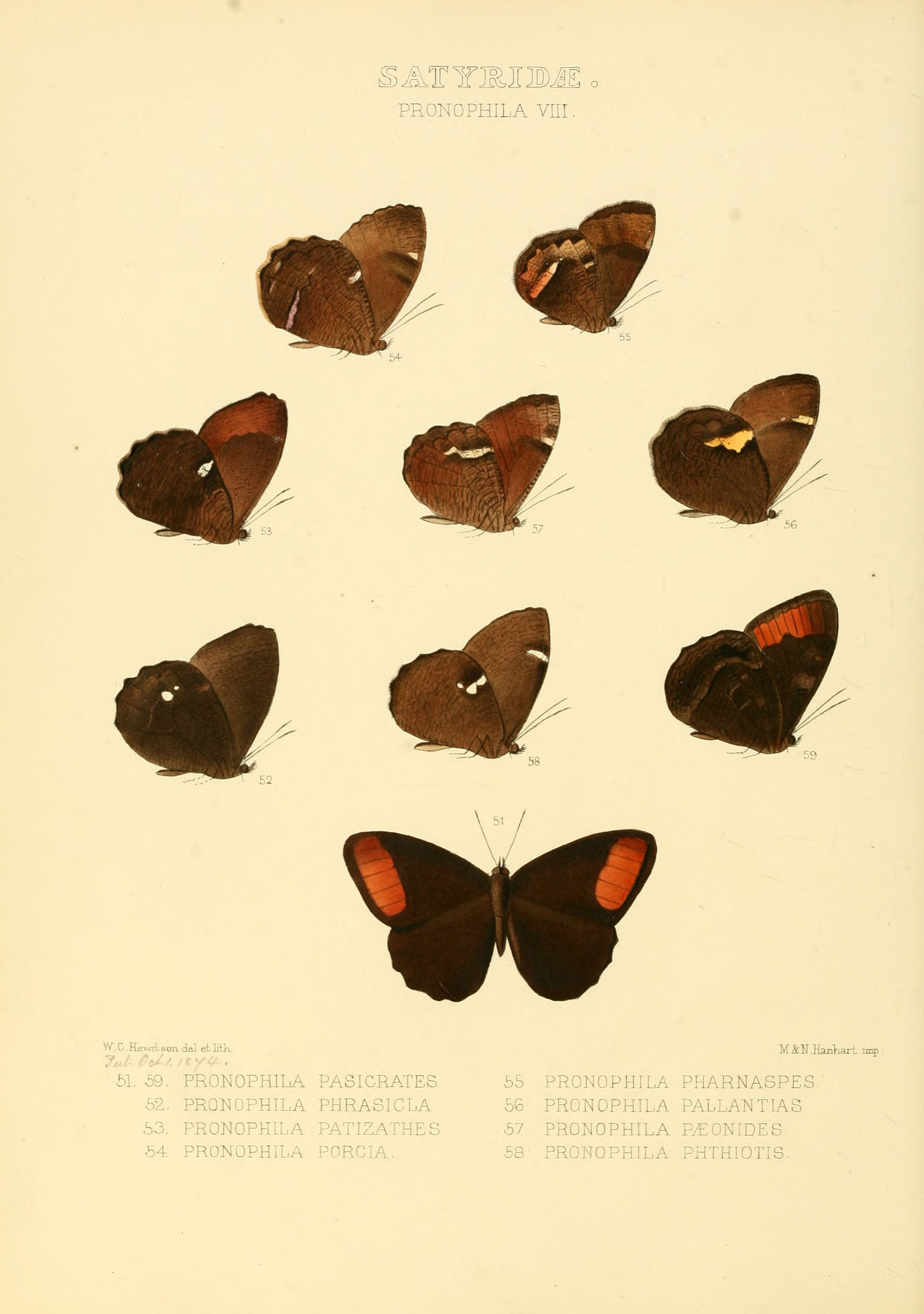 Plate: Pronophila VIII Pronophila pasicrates. Figs. 51, 59. Accepted as Pedaliodes ereiba (C. & R. Felder, 1867). Pronophila phrasicla. Fig. 52. Accepted as Pedaliodes phrasicla (Hewitson, 1874). Pronophila patizathes. Fig. 53. Accepted as Pedaliodes patizathes (Hewitson, 1874). Pronophila pæonides (wrongly captioned porcia). Fig. 54. Accepted as Pedaliodes paeonides (Hewitson, 1874). Pronophila pharnaspes. Fig. 55. Accepted as Pedaliodes plotina (Hewitson, 1862). Pronophila pallantias. Fig. 56. Accepted as Pedaliodes porcia Hewitson, 1869. Pronophila porcia (wrongly captioned pæonides). Fig. 57. Accepted as Pedaliodes porcia Hewitson, 1869. Pronophila phthiotis. Fig. 58. Accepted as Pedaliodes phthiotis (Hewitson, 1874).